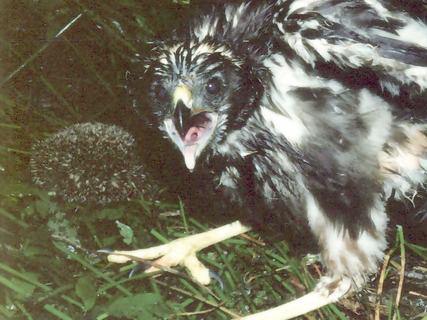 Swamp Harrier chick Circus approximans with hedgehog carcass presumably caught or scavenged for the chicks. Nest discovered in a swampy area on a kiwifuit orchard near Waihi, New Zealand, circa 1988.